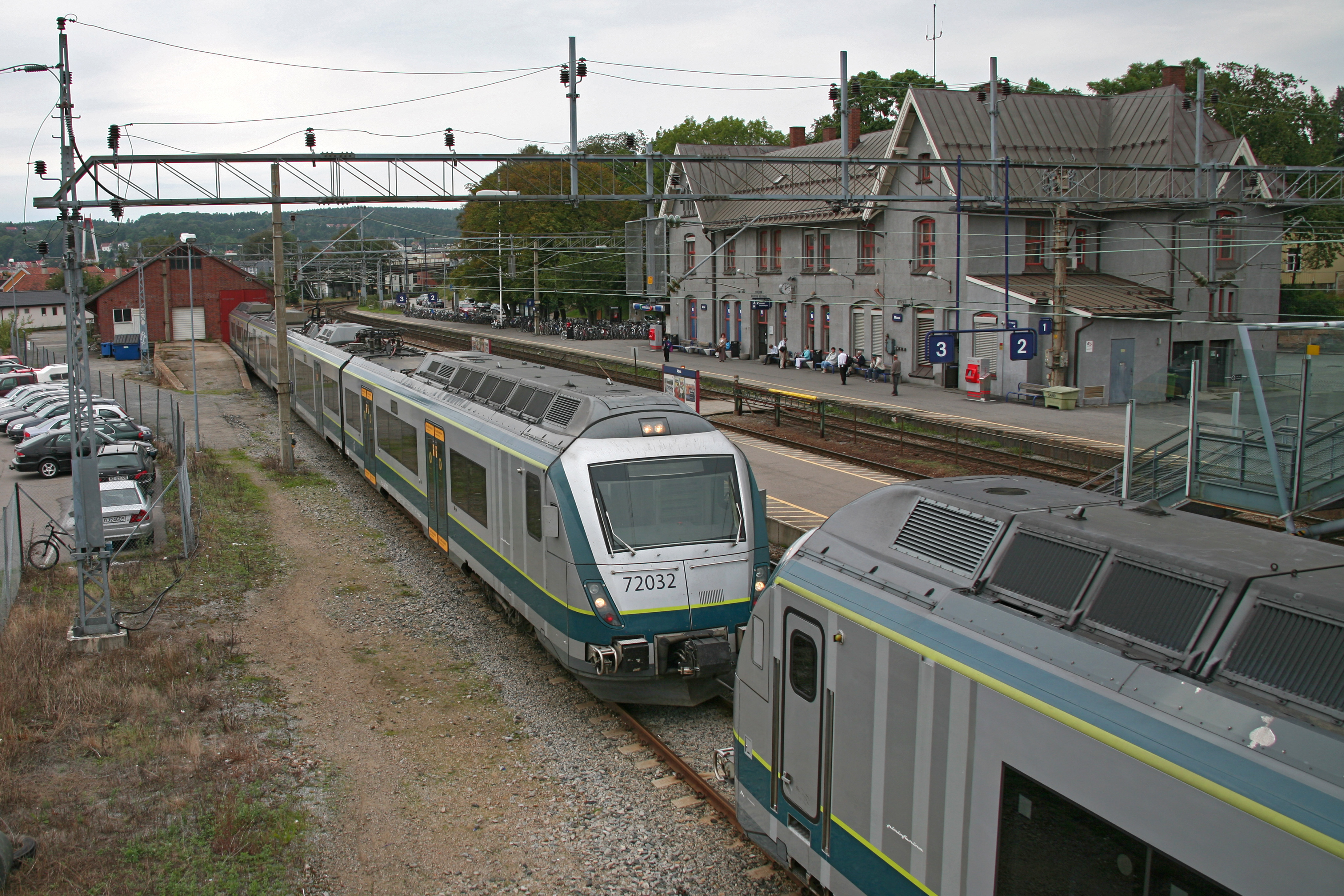 Picture of Moss Railway Station (Østfold - Norway)